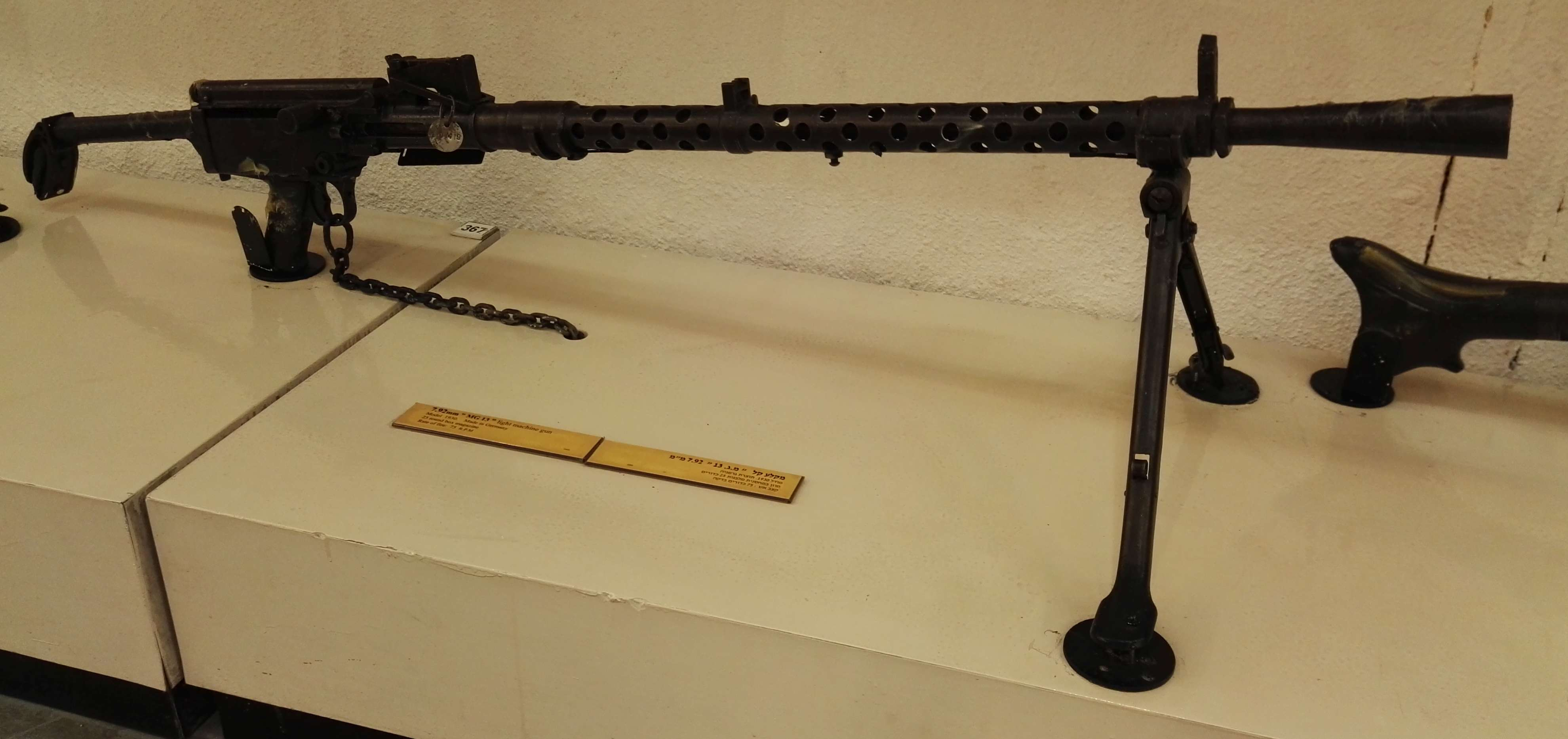 Batey ha-Osef Museum, Tel Aviv, Israel.